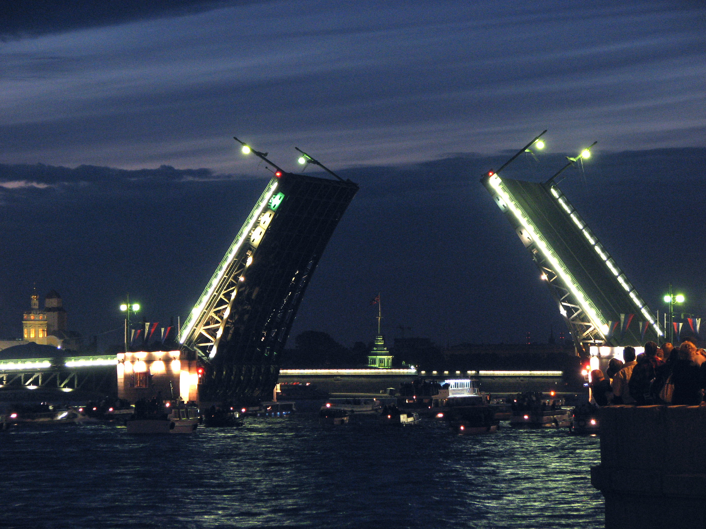 Saint Petersburg. White nights. The Dvortsoviy (Palace) bridge. End of moving of bridge spans.